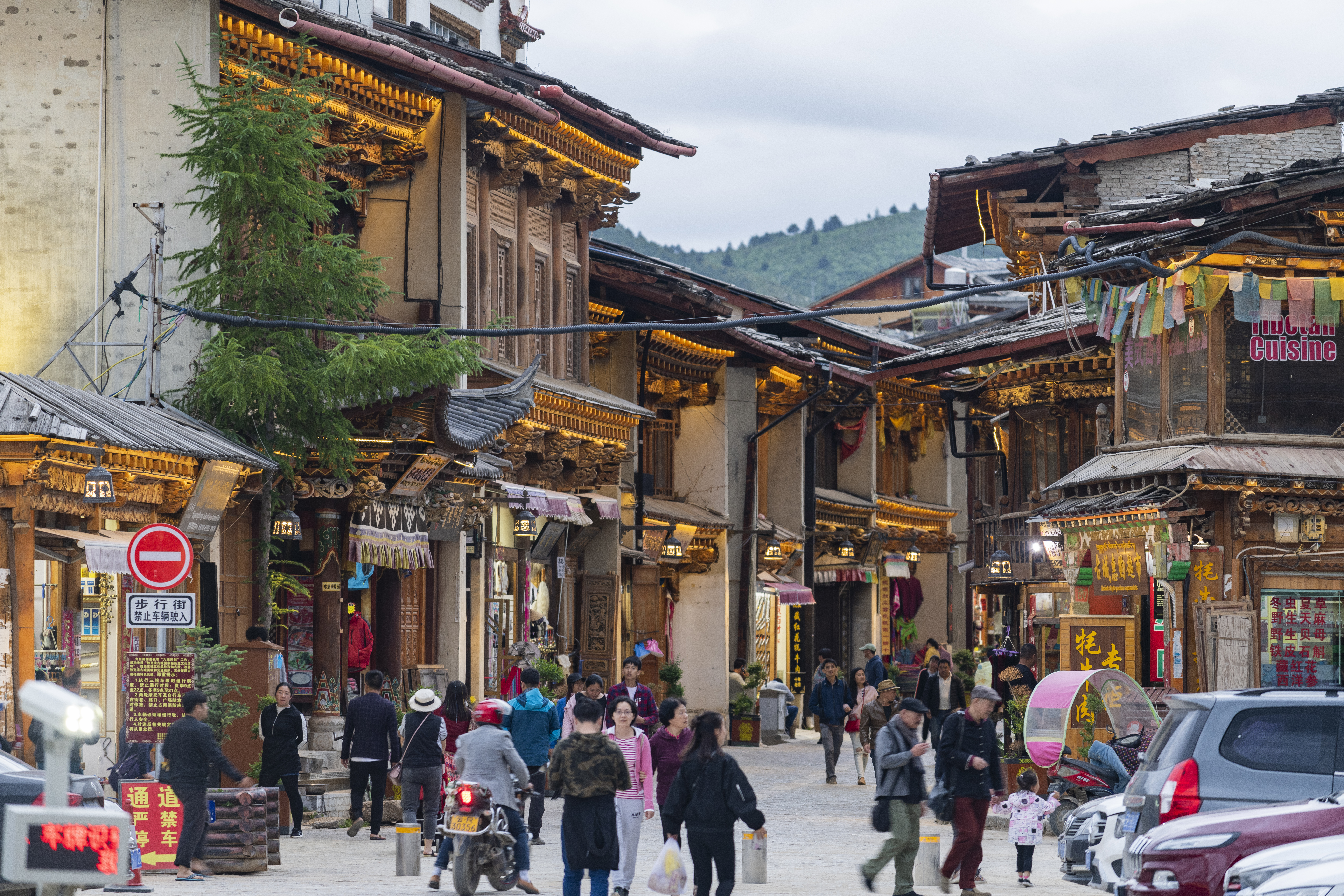 dukezong old town shangrila yunnan 2018